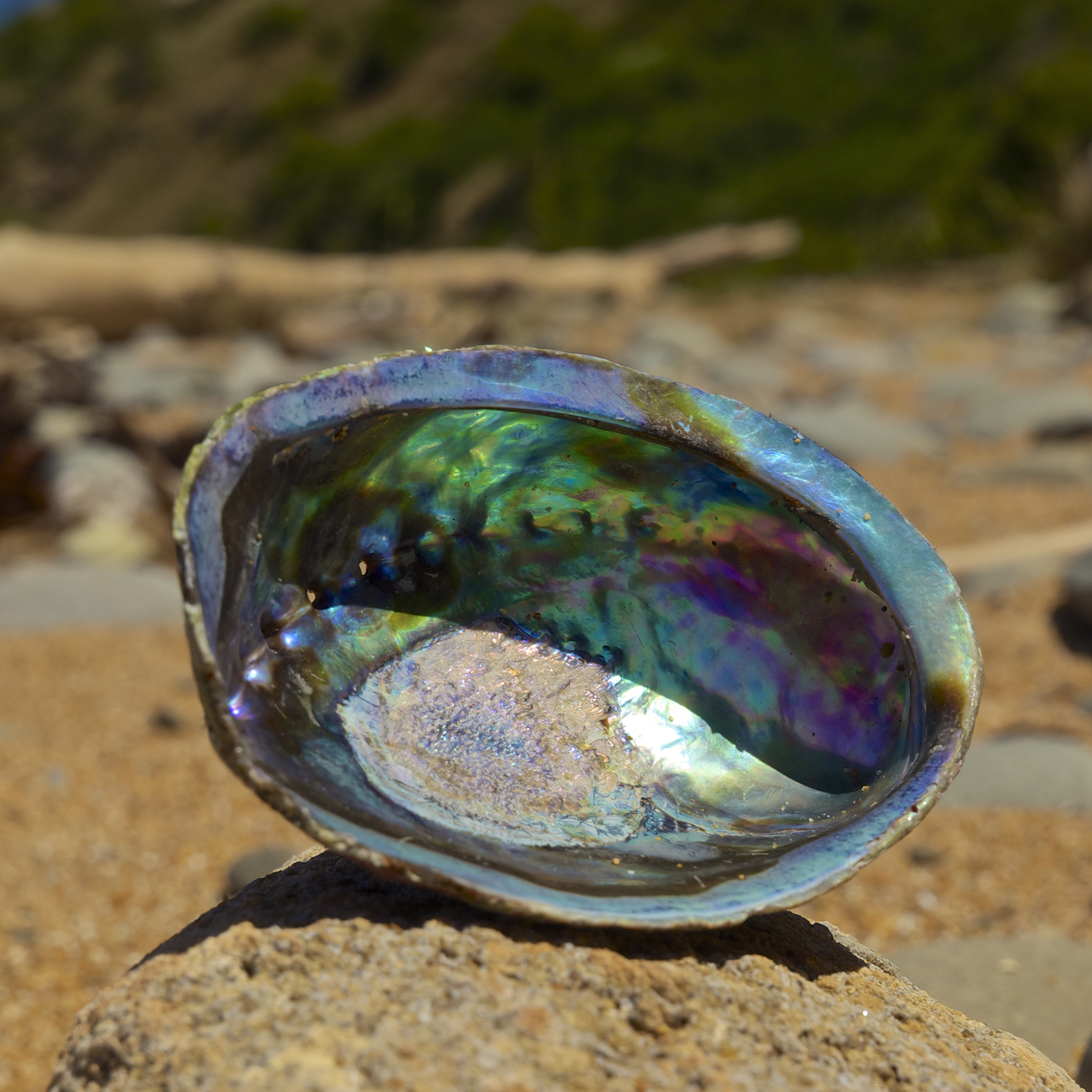 Shell of a Paua snail (Haliotis iris), Oamaru, New Zealand